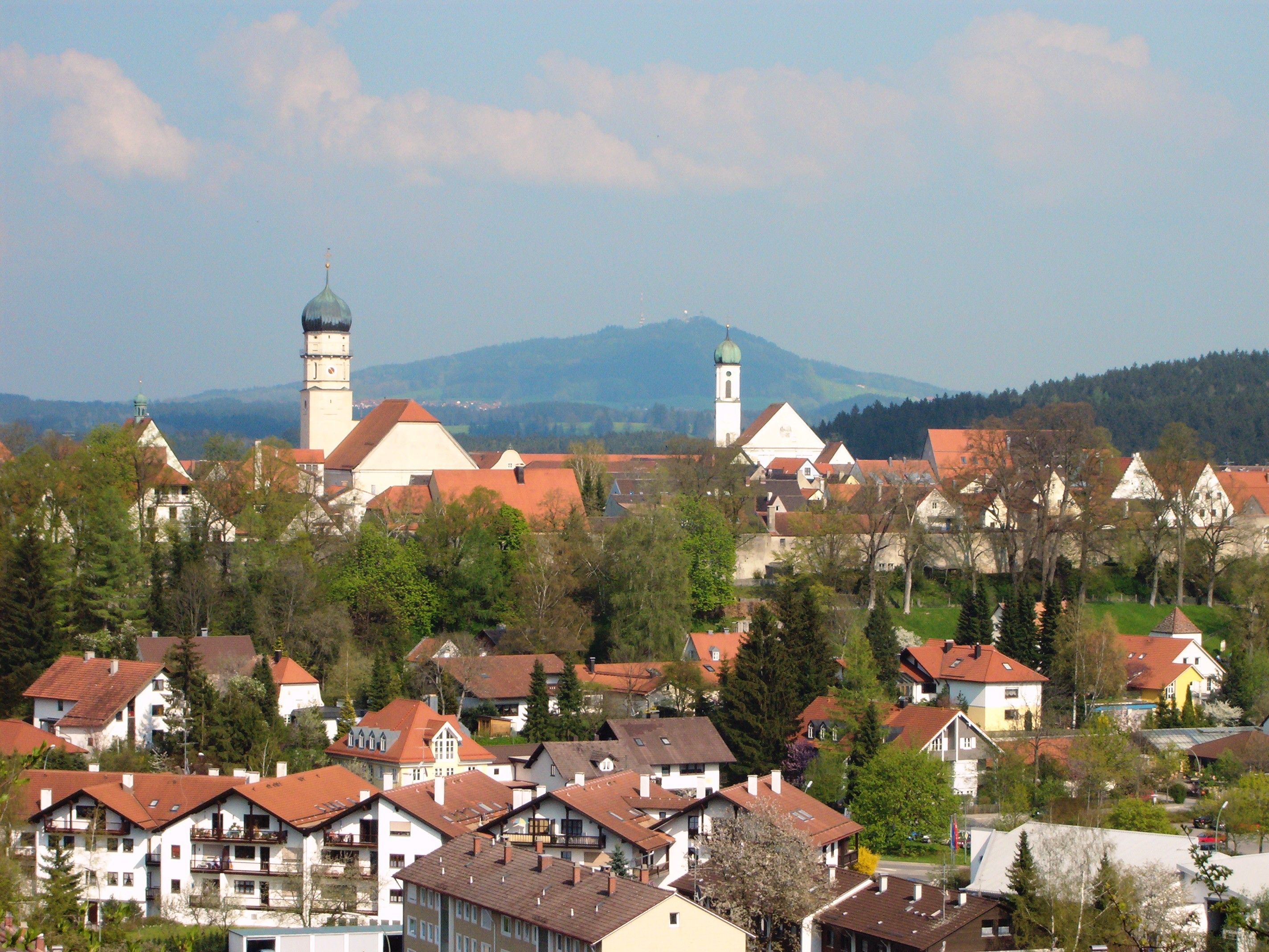 Schongau, Germany, Overview